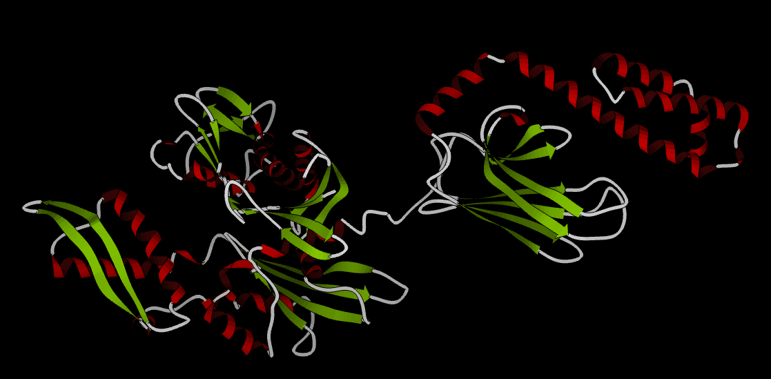 Hsp70 (pdb database 2KHO). Left domain is NBD (Nucleotide Binding domain) which can bind to ATP and ADP. Right lower domain is the groove, Subtrate Binding domain. Right upper domain is the "lip". (α-helices are shown in red. β-strands are shown in green.)